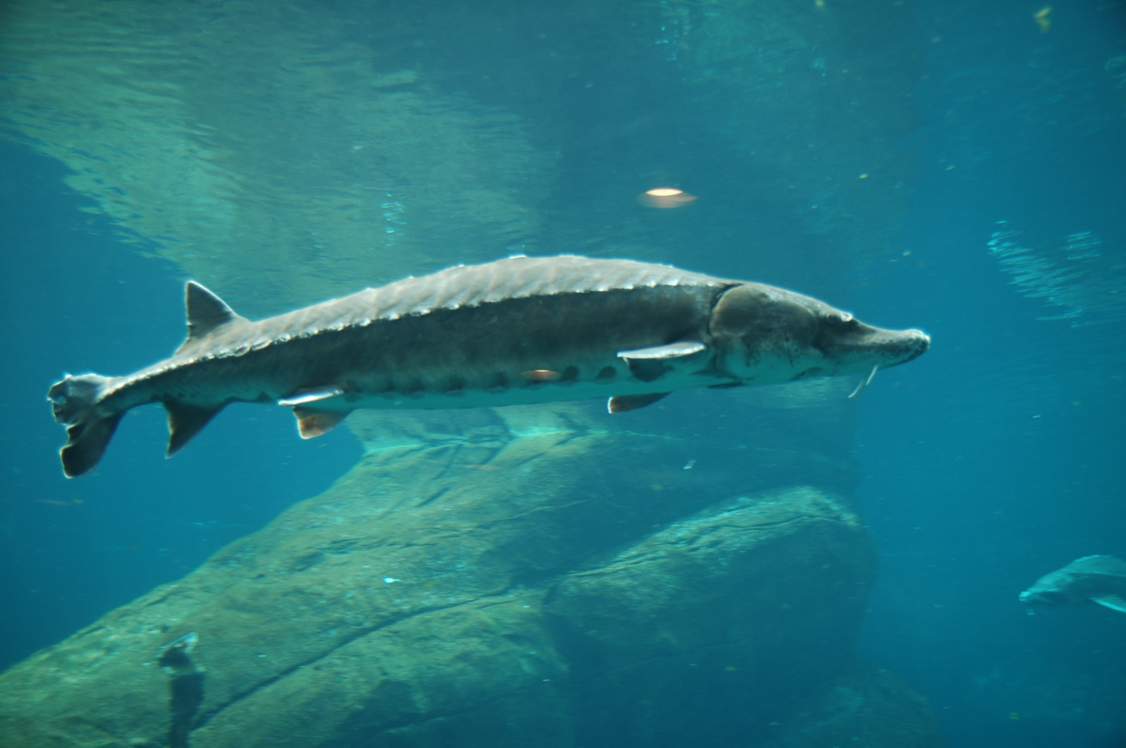 Acipenser oxyrinchus in Montreal Biodome, Canada.